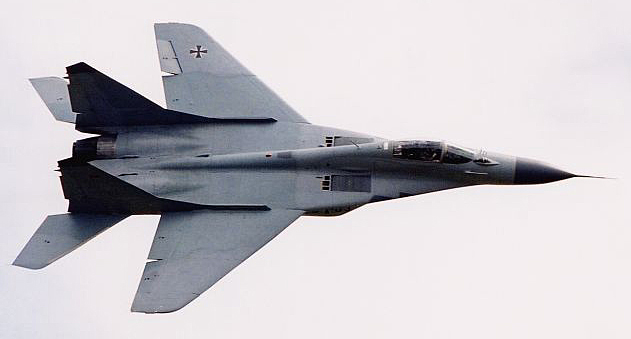 A German Mikoyan-Gurevich MiG-29 at RAF Waddington (UK), 29 June 2002.